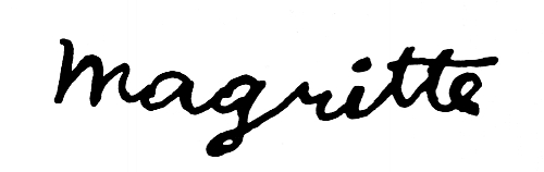 This signature is believed to be ineligible for copyright and therefore in the public domain because it falls below the required level of originality for copyright protection both in the United States and in the source country (if different). In this case, the source country (e.g. the country of nationality of the signatory) is believed to be Belgium. Note that this tag cannot be used on all signatures, as not all signatures are copyright-free. See Commons:When to use the PD-signature tag for an explanation of when the tag may be used.